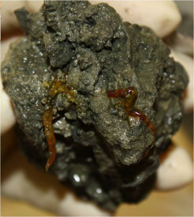 Archaea rock. This deep ocean rock harbored worms that consumed methane-eating archaea.